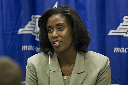 Sylvia Crawley speaks in a press conference at the 2008 Women's MAC Tournament.